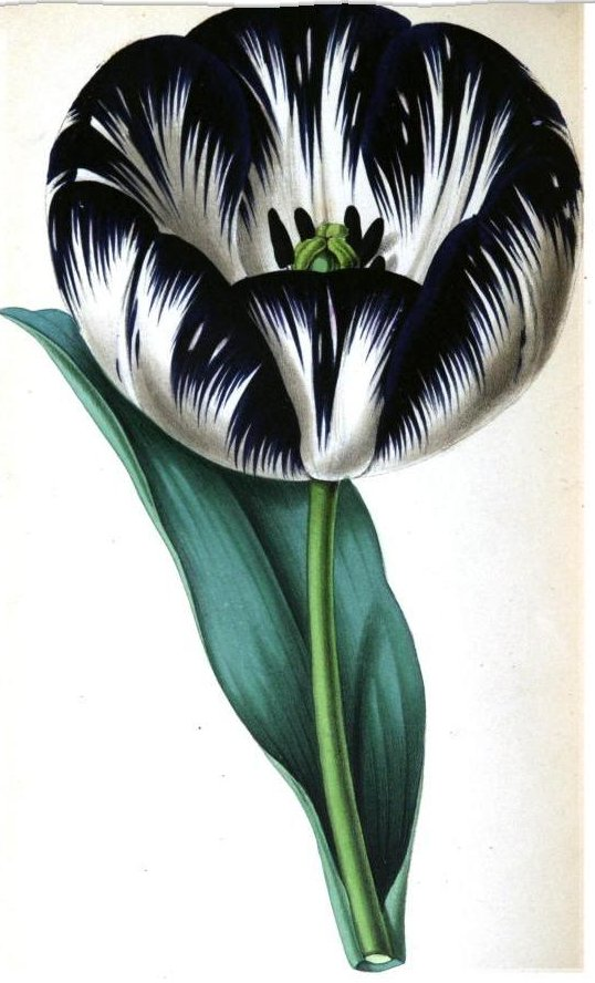 Chellaston Beauty Tulip - a tulip named for Chellaston near Derby. Illustration from page 184 of The Florist, Fruitist, and Garden Miscellany